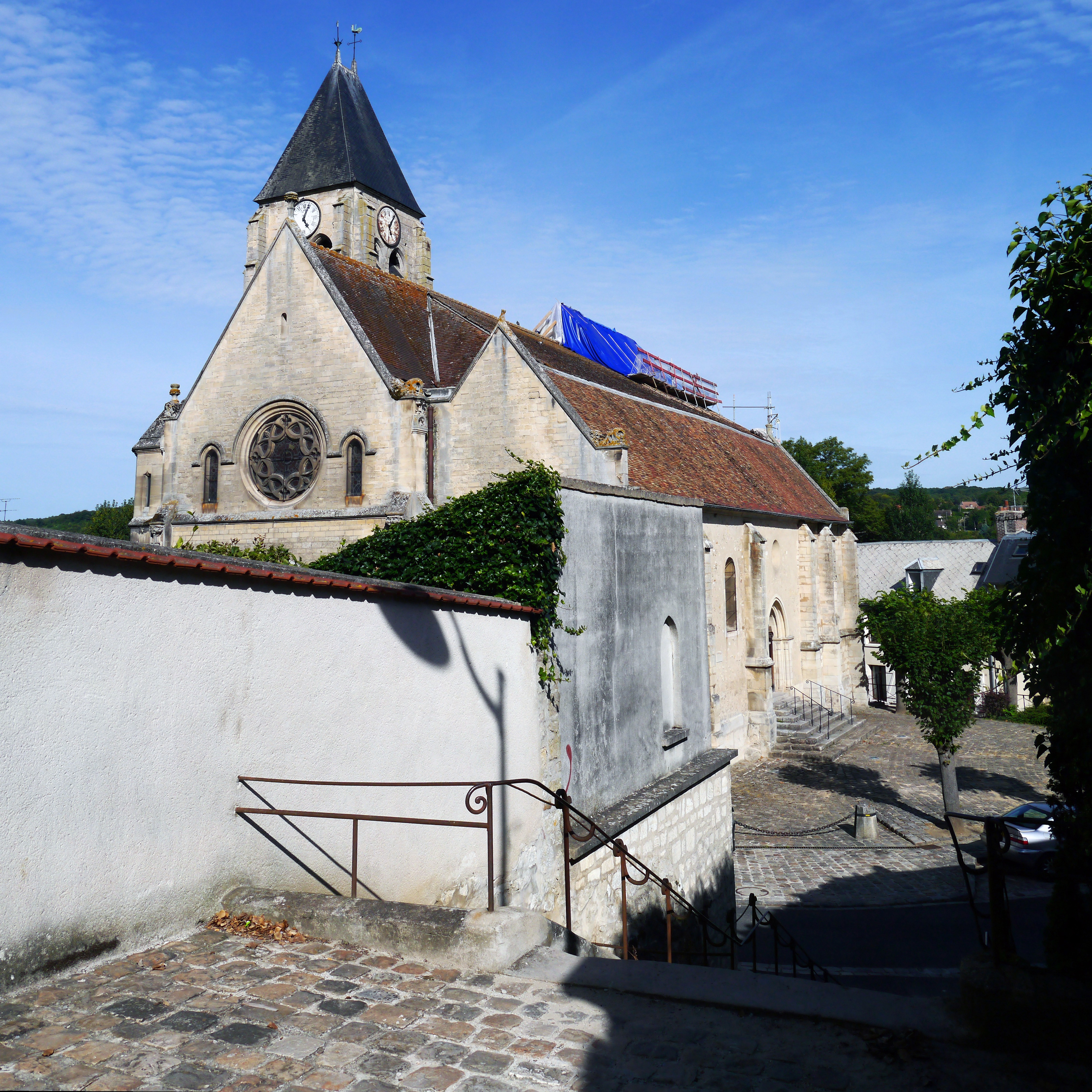 Église Saint-Germain-l'Auxerrois, Presles, France. .